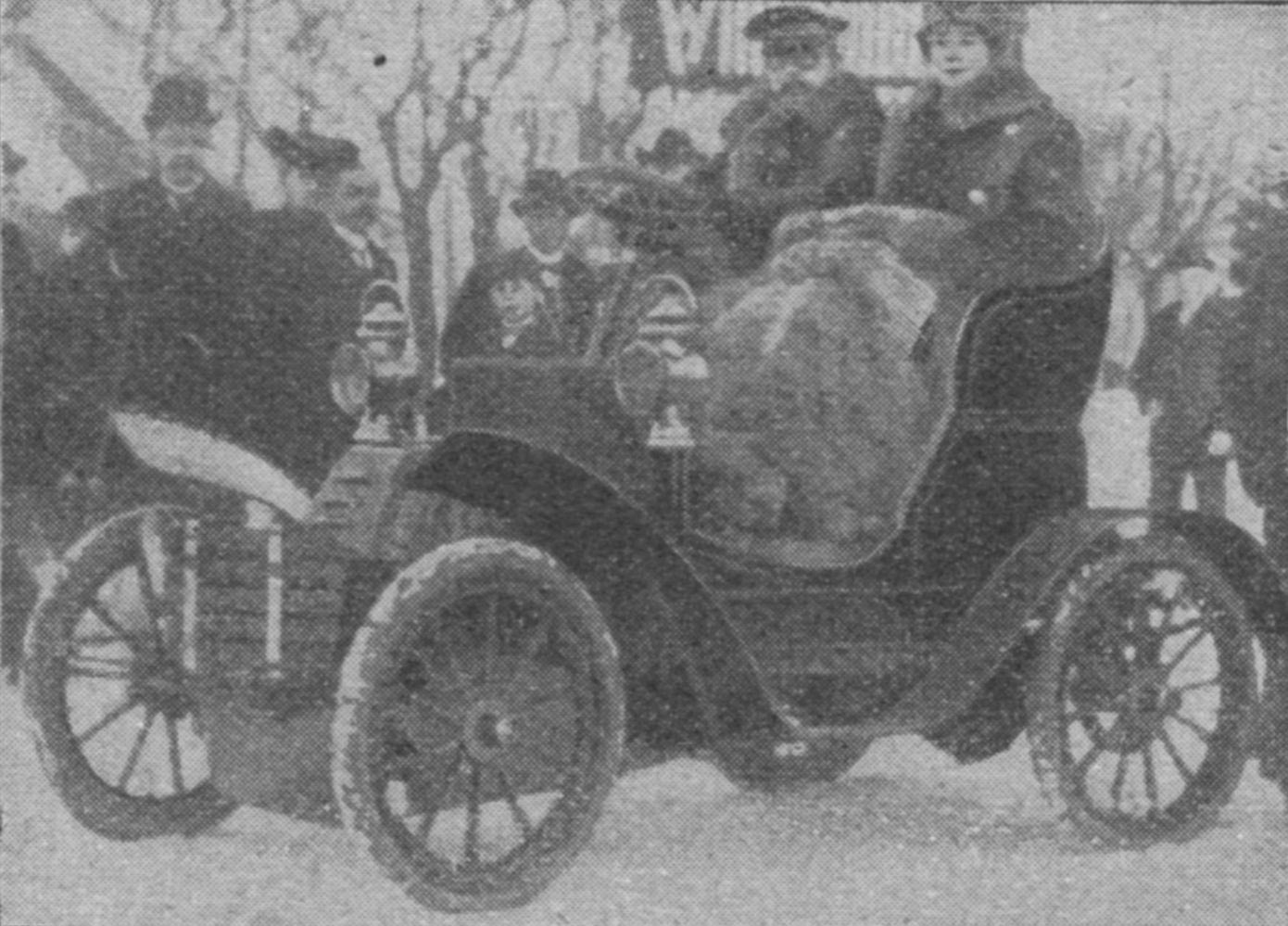 Walther Nernst with his wife using a Rex-Simplex car